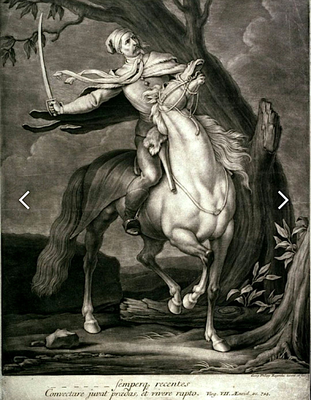 Kuruc light cavalery